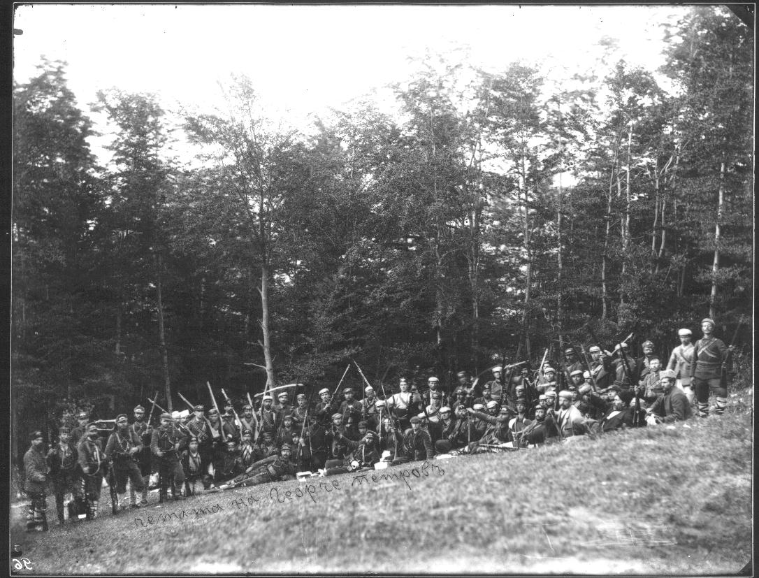 Cheta of bulgarian revolutionary Gyorche Petrov in 1903